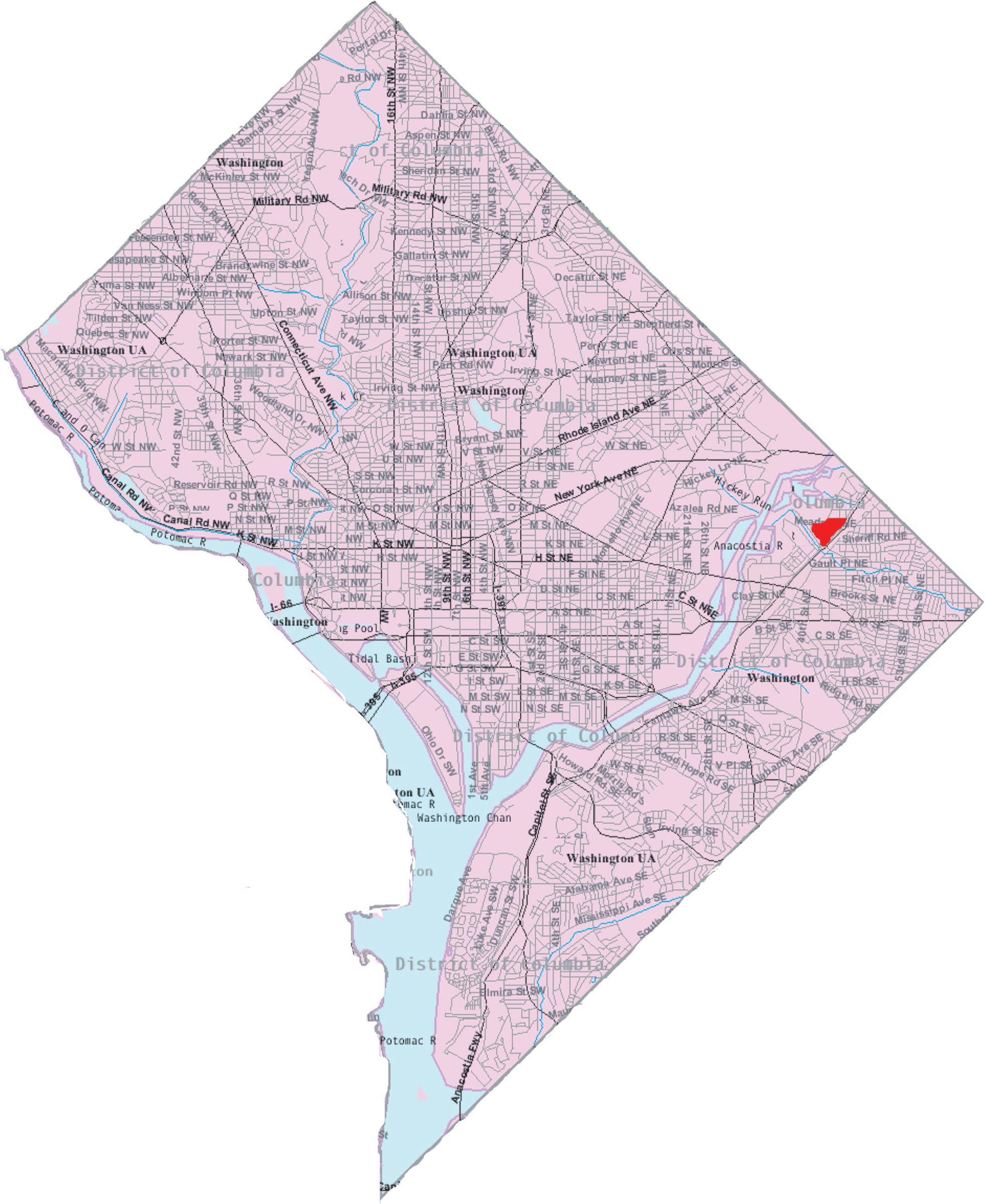 This image is a modified version of a self-generated reference map from the U.S. Census Bureau's American Factfinder at by Wikipedia user Msclguru.